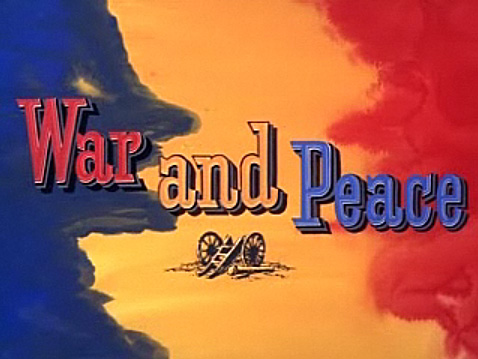 Cropped screenshot from the trailer for the film War and Peace.